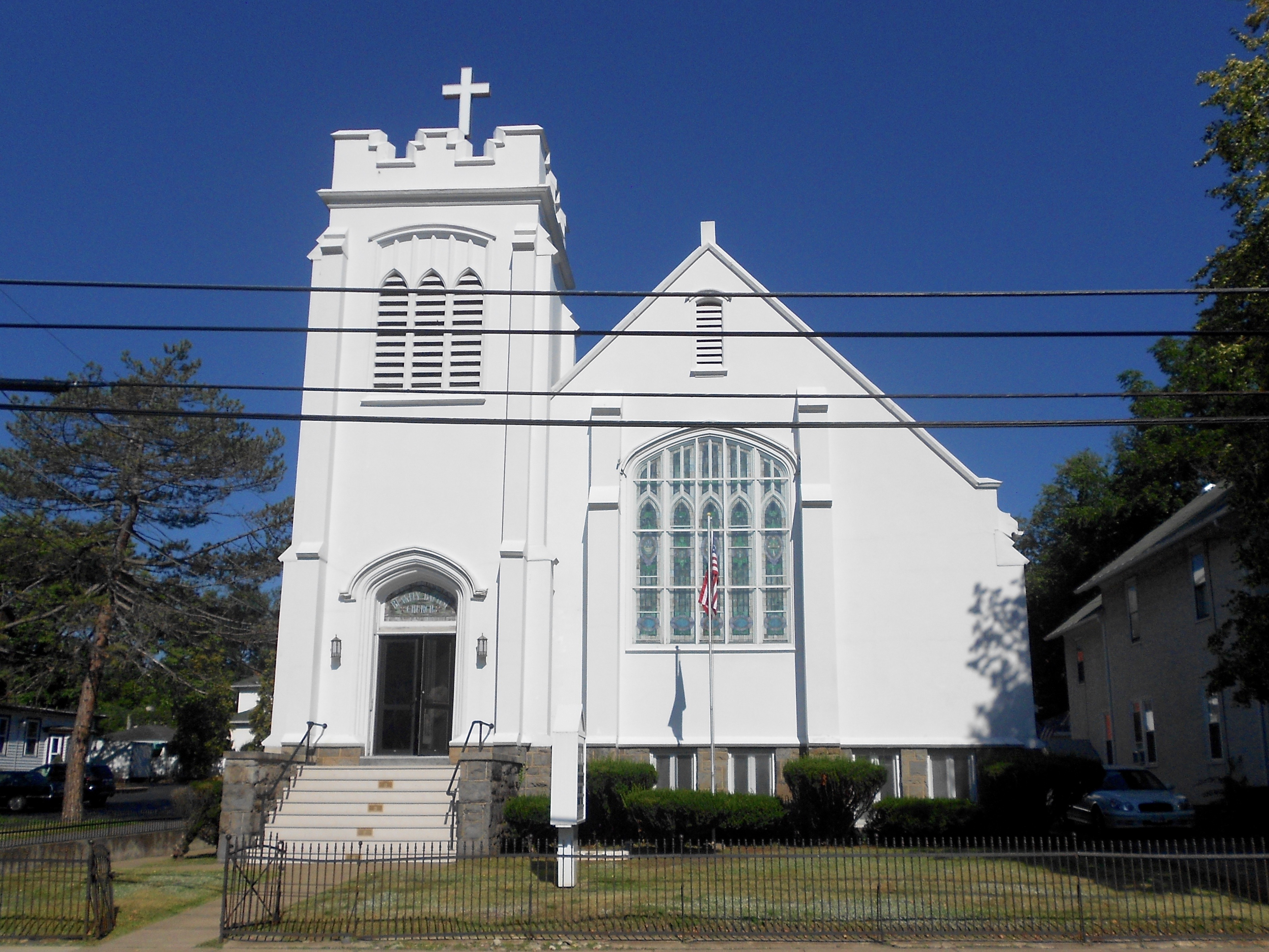 Blakely Baptist Church on Main Street, Blakely, Lackawanna County, Pennsylvania